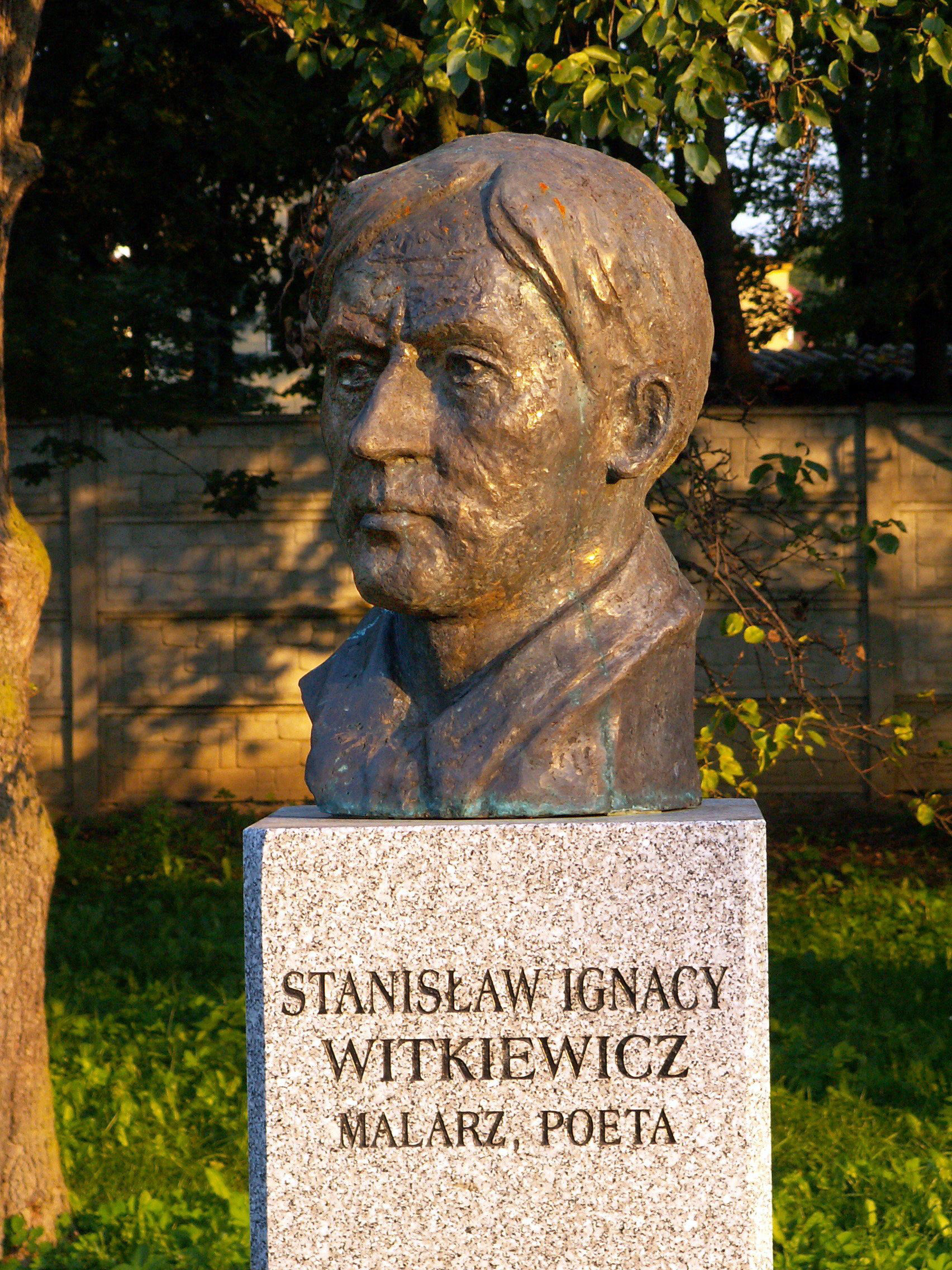 Bust of Stanisław Ignacy Witkiewicz in Celebrity Alley in Kielce (Poland)